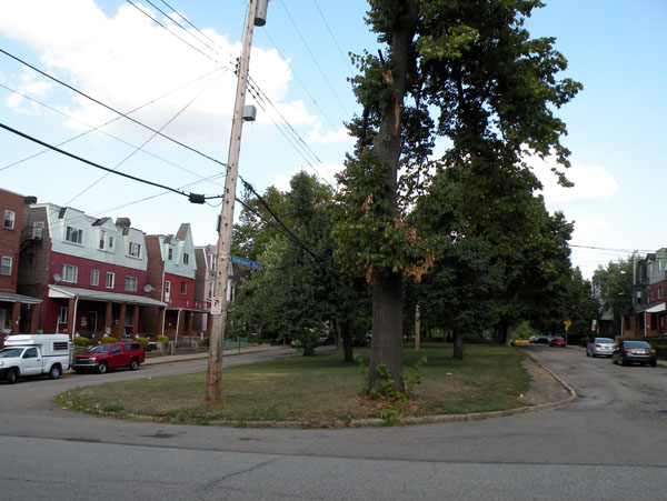 Picture of the Oakland Square Historic District located in the South Oakland neighborhood of Pittsburgh, Pennsylvania, on August 7, 2010. The district includes Oakland Square, pictured here, and the area contains many older homes that were built in the 1890s. The neighborhood was conceived in the 1890s by developer Eugene O'Neill to mimic the streets of Victorian England.[1] The district is on the List of City of Pittsburgh historic designations.